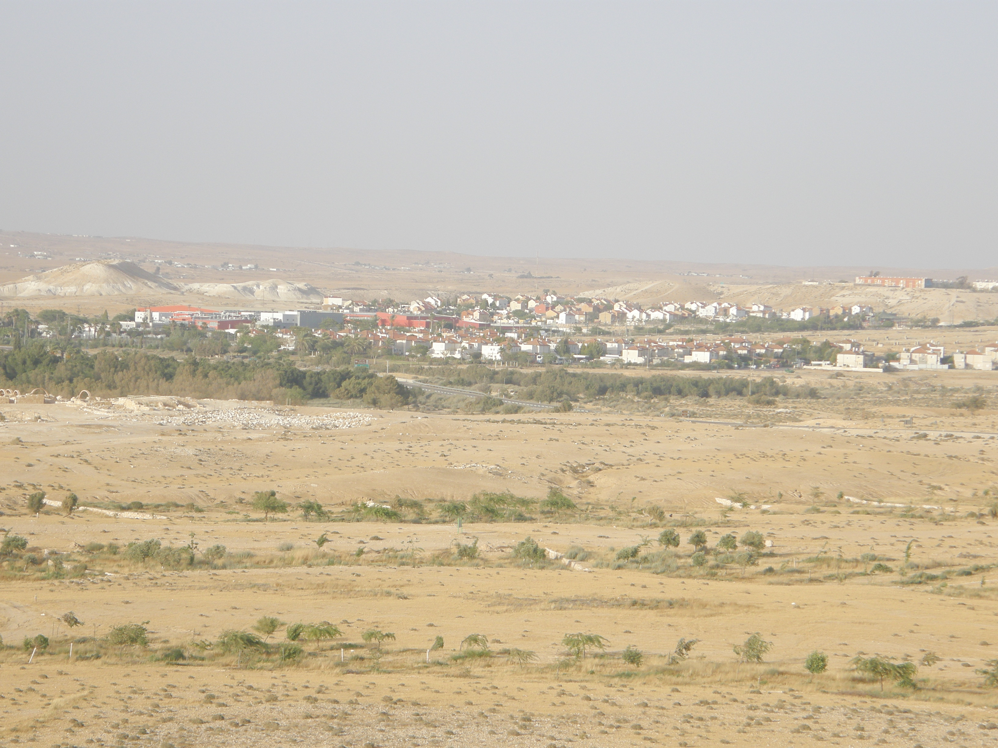 Town of Yeruham, View from the south